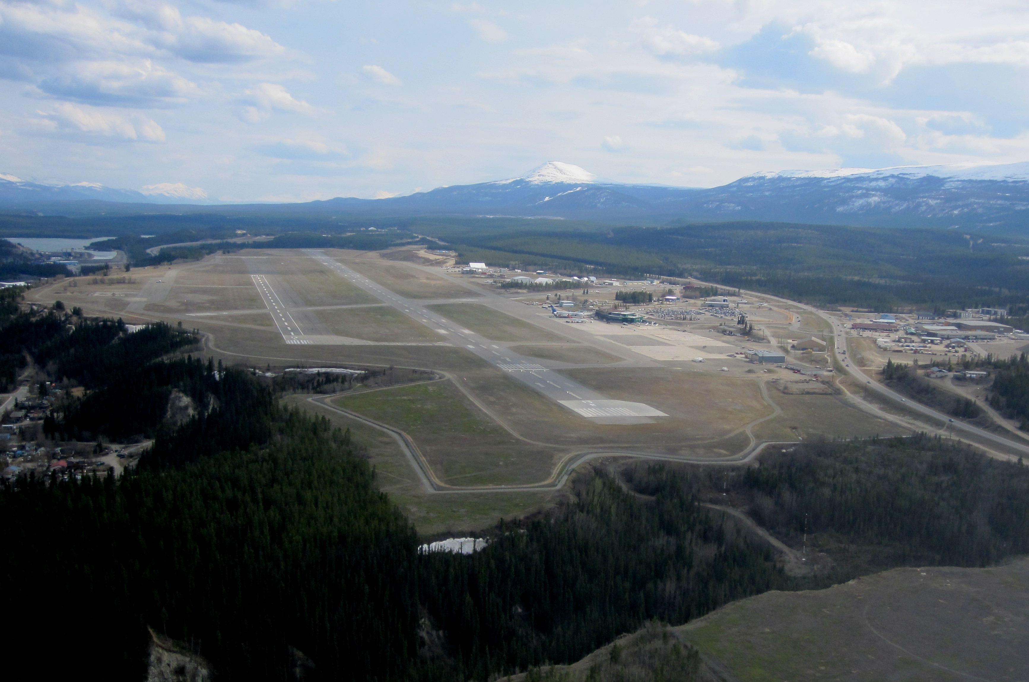 Whitehorse Airport, Yukon. May 22, 2011